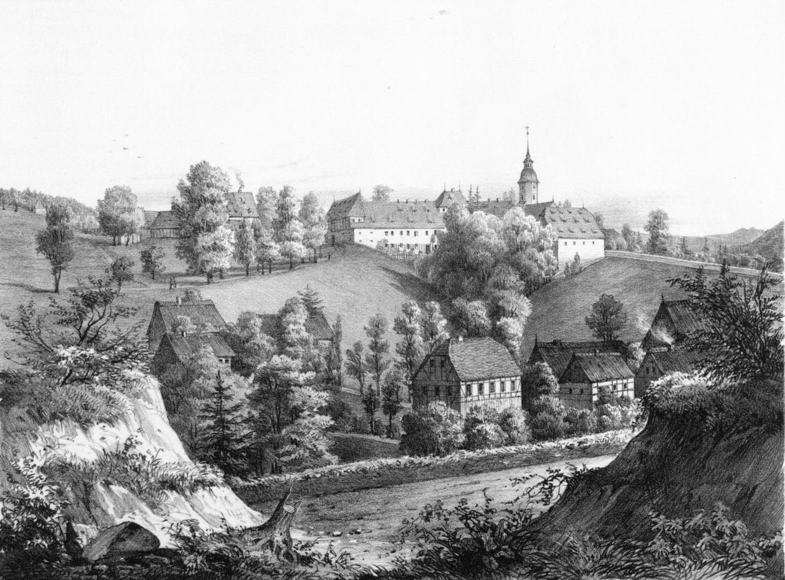 manor Dorfchemnitz in the Erzgebirge